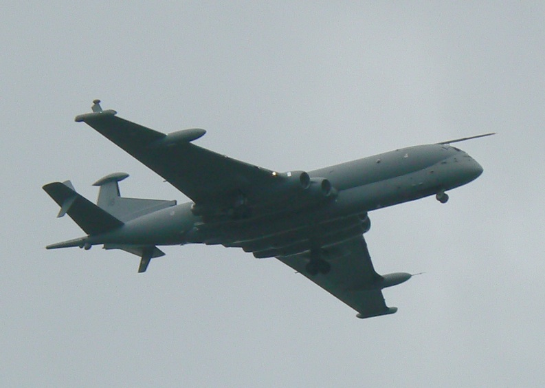 Nimrod passing over the Ribble Link